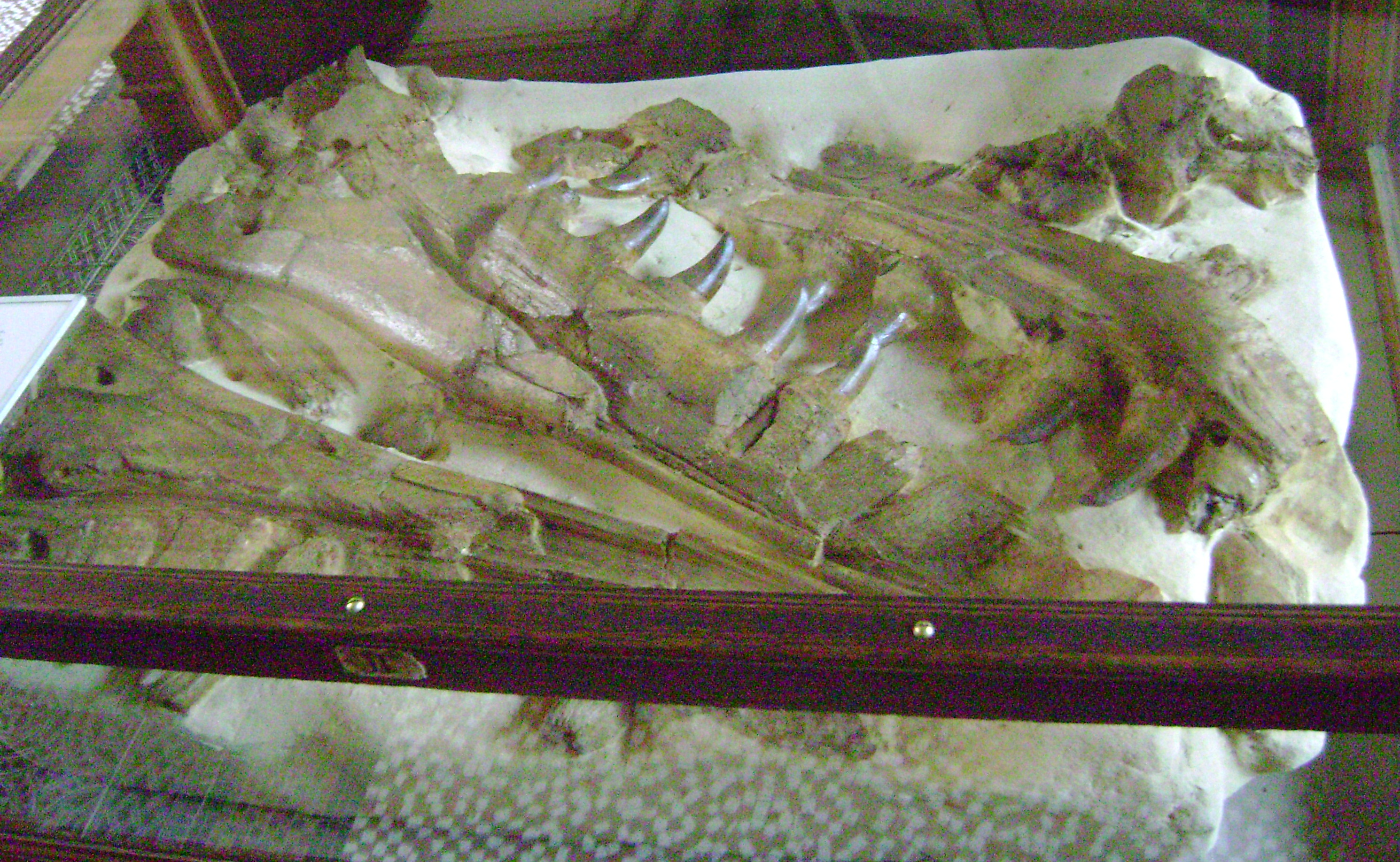 Fossil of Mosasaurus, TM 7424, the first to be found in 1764, in the Teylers Museum, Haarlem